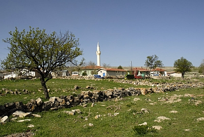 A view from Avdanlı, Polatlı.